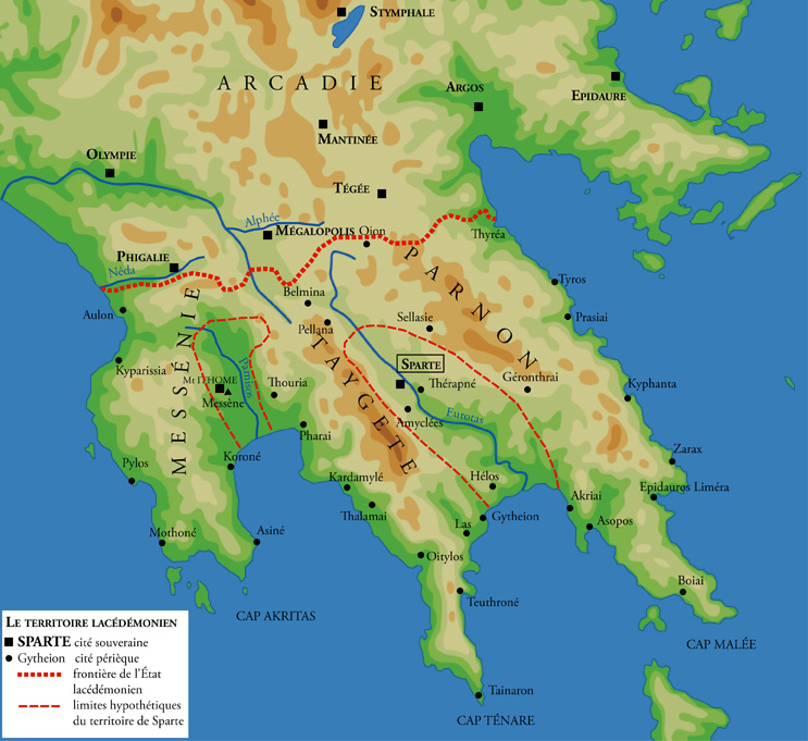 Territory of ancient Sparta. Data from Kaplan (dir.), Le Monde grec, Paris, 1995, p. 93.